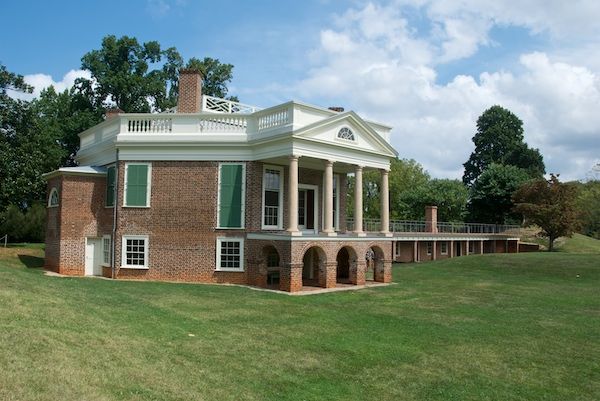 View of the restored Thomas Jefferson's home at Poplar Forest in 2009